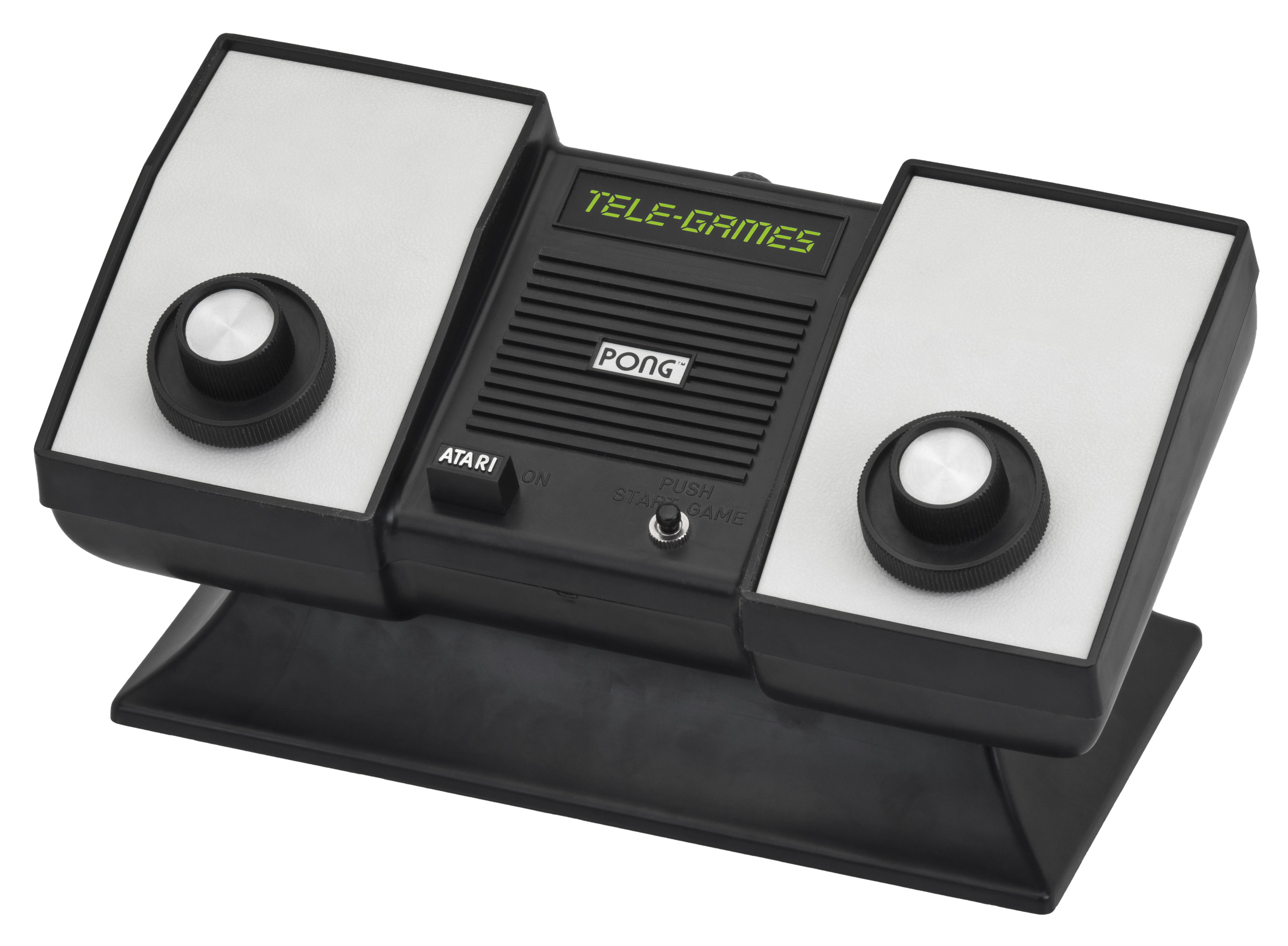 The Sears Tele-Games Atari Pong console, released in 1975.